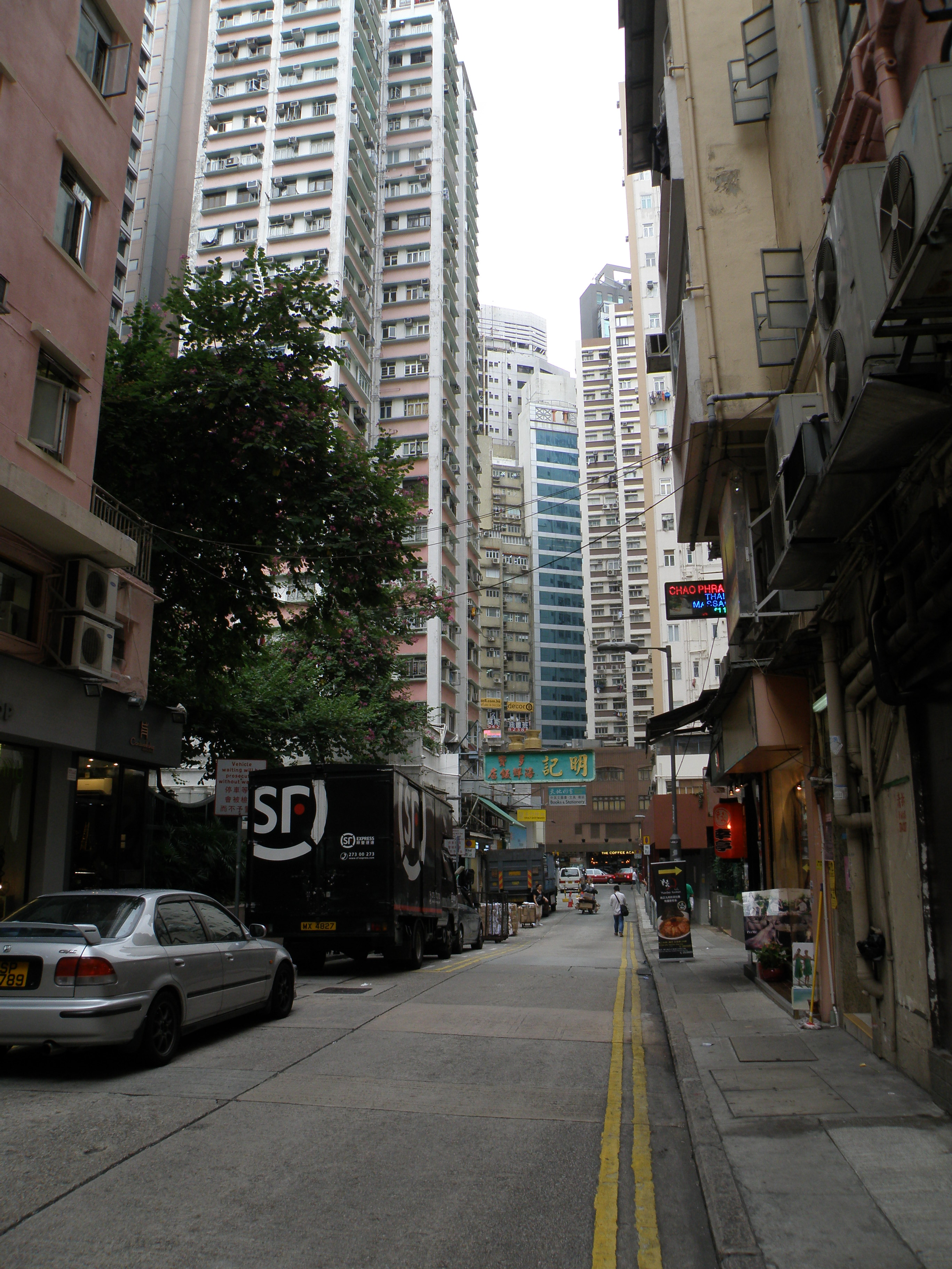 Lun Fat Street in Wan Chai, Hong Kong.